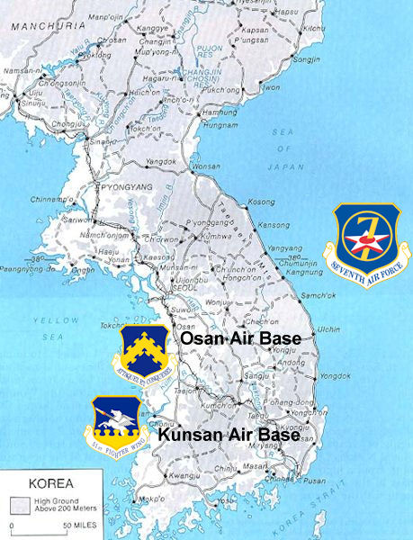 Map showing locations of USAF Bases in South Korea. Used US Gov basemap with emblems from United States Air Force, compiled by author